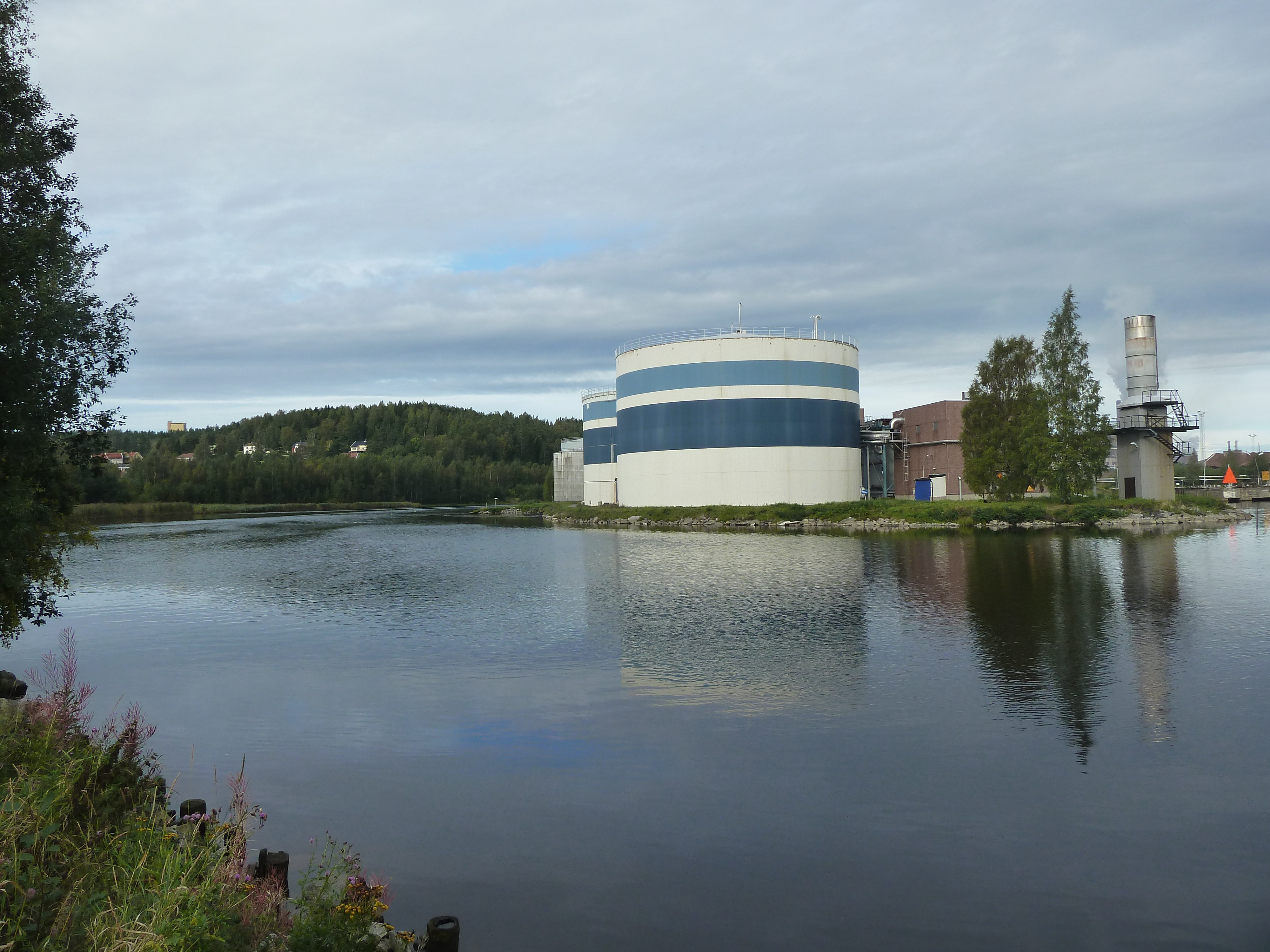 The mouth of the Moälven, buildings of the Domsjö Fabriker in the background. Near Domjö, Örnsköldsvik, Sweden.